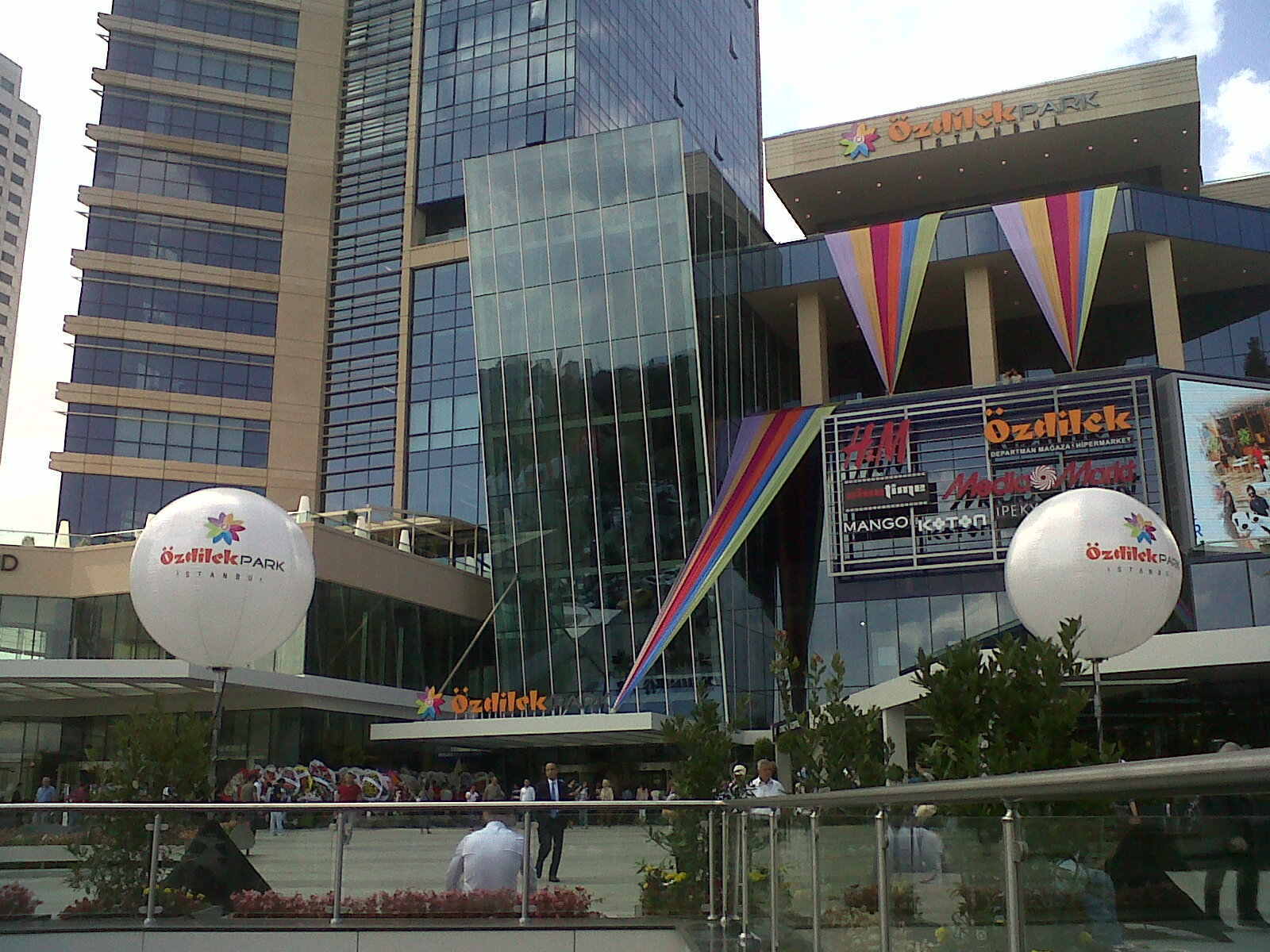 Özdilek Center, Özdilek Park İstanbul